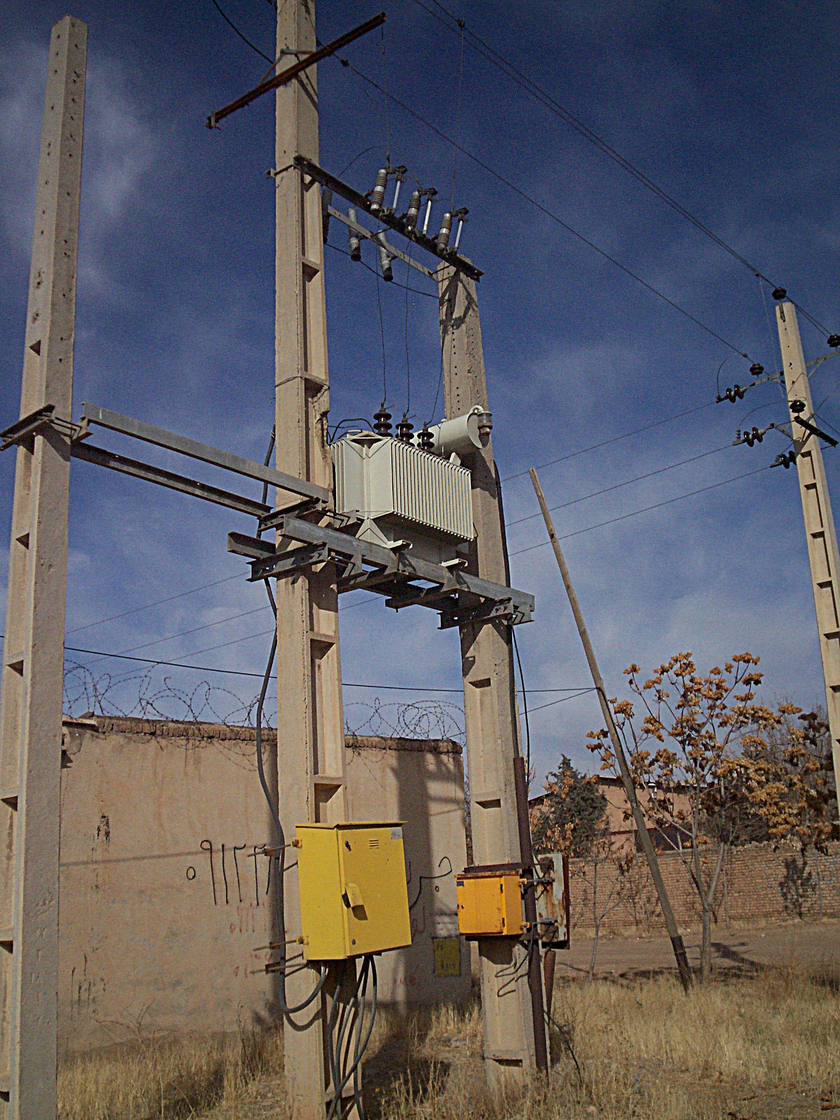 A pole-mounted transformer in Iran